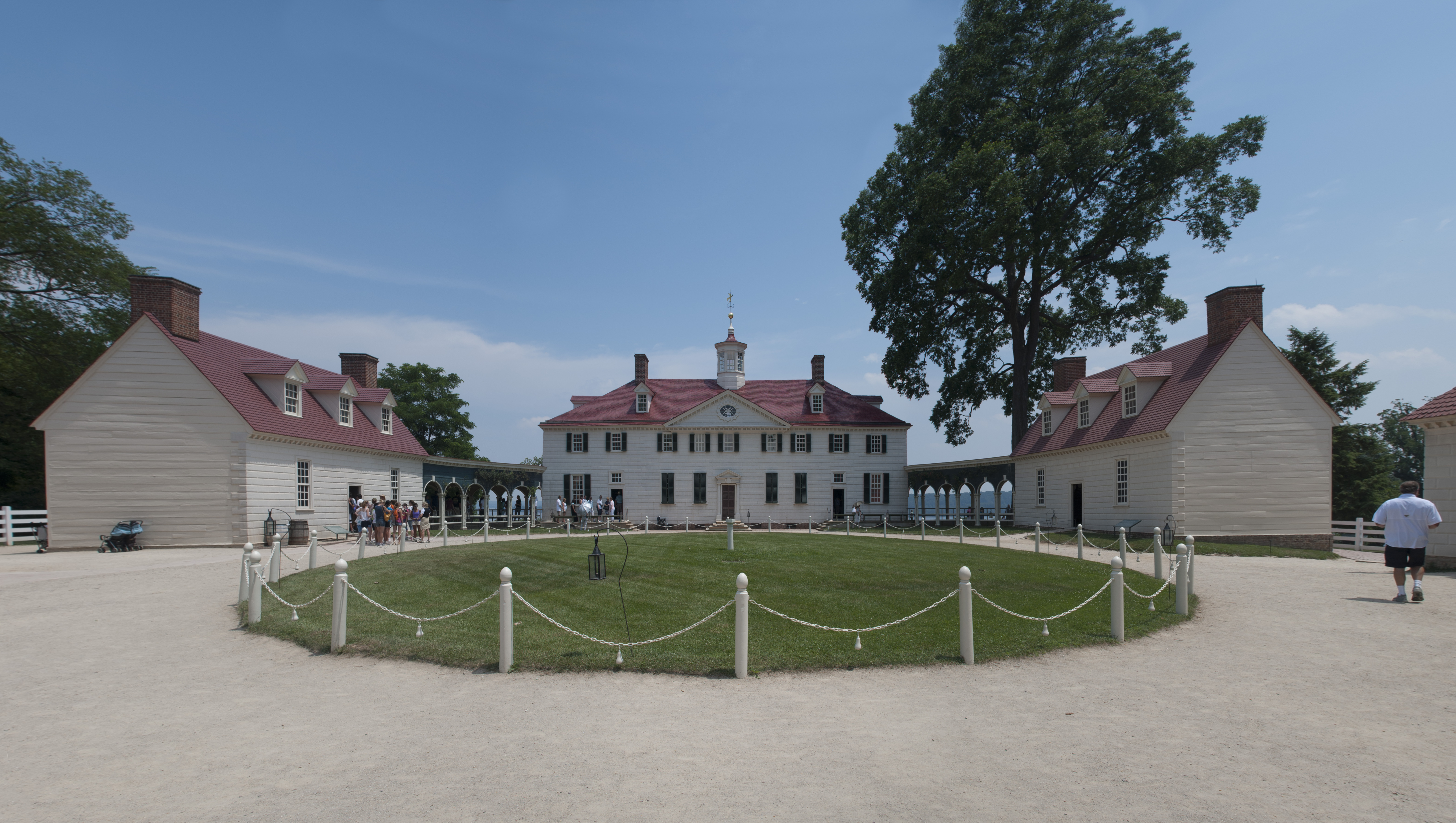 Photograph of Mount Vernon, Fairfax County, Virginia. George Washington's Home.